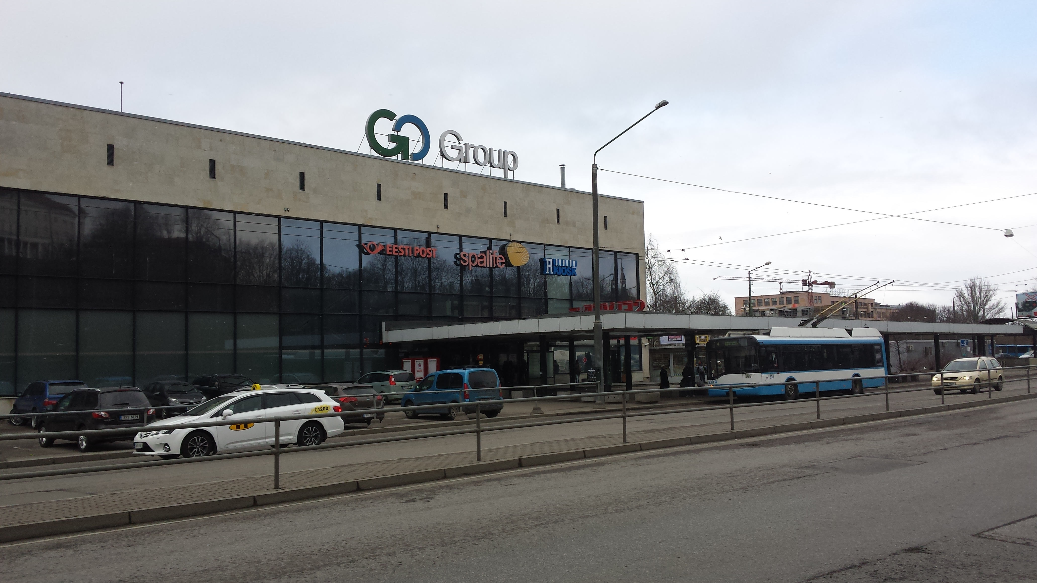 Train station in Tallinn (Balti jaam)